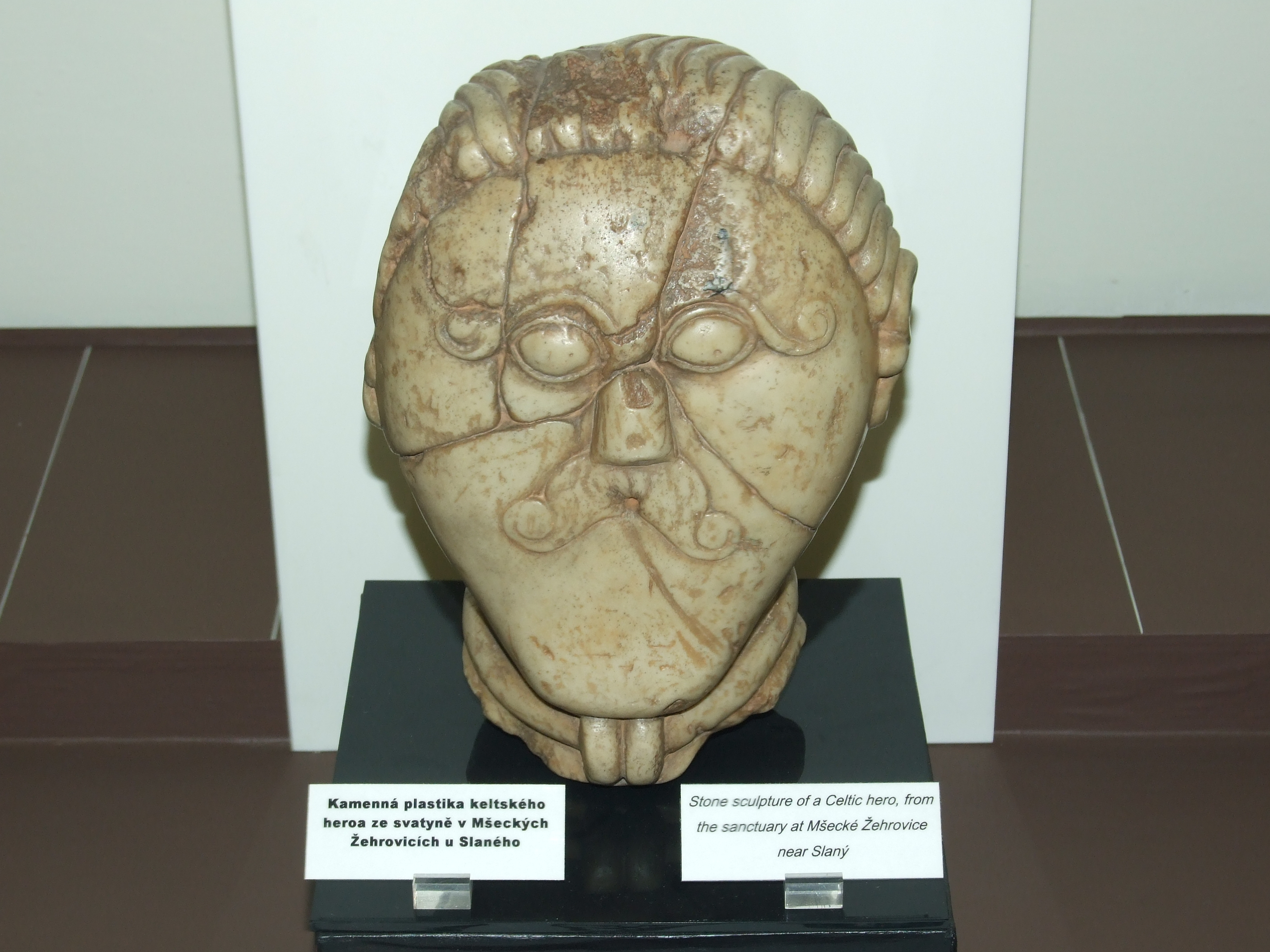 Prehistoric Times of Bohemia, Moravia and Slovakia, National Museum in Prague. Stone sculpture of a Celtic hero from the sanctuary at Mšecké Žehrovice, Rakovník District, Czech Republic.